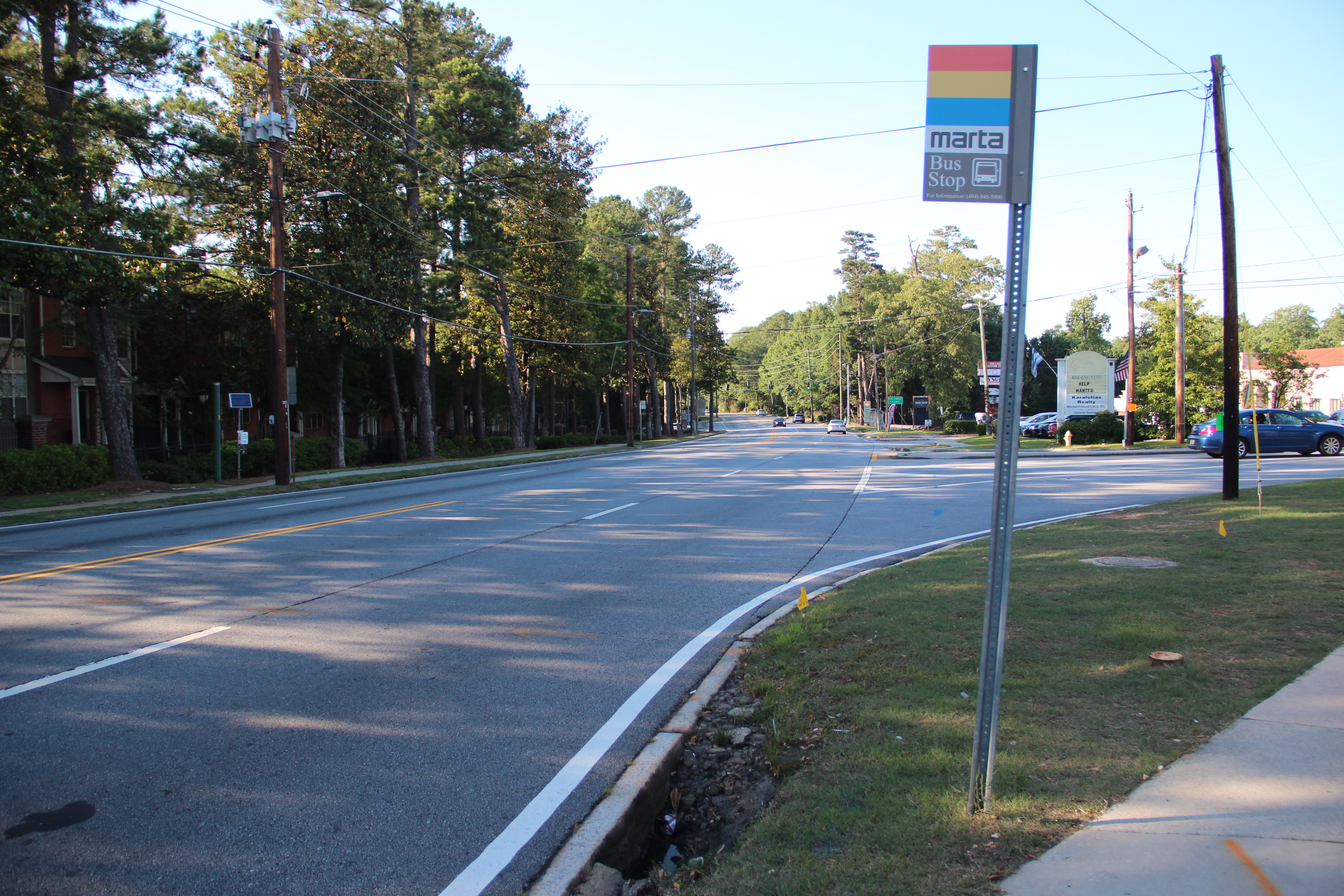 Clairmont Road (GA 155/US 23), North Decatur, DeKalb County, Georgia